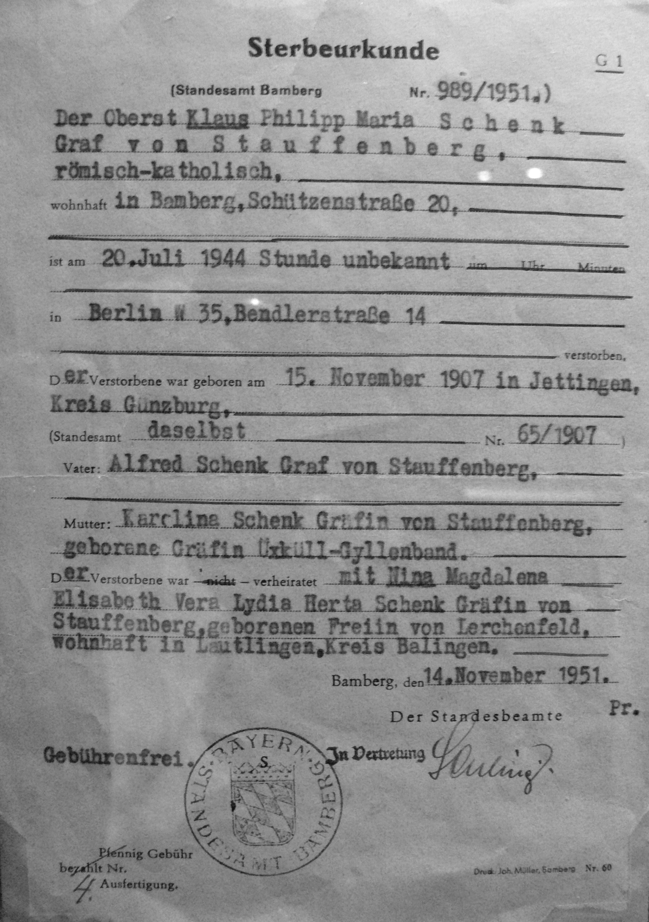 Death certificate of Claus Schenk Graf von Stauffenberg, shot on July 20, 1944; certificate from the city of Bamberg, written in 1951